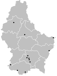 A map of cantons of Luxembourg after mergers of 2006-01-01, with locations of teams in the Luxembourg National Division in season 2004-05 marked.